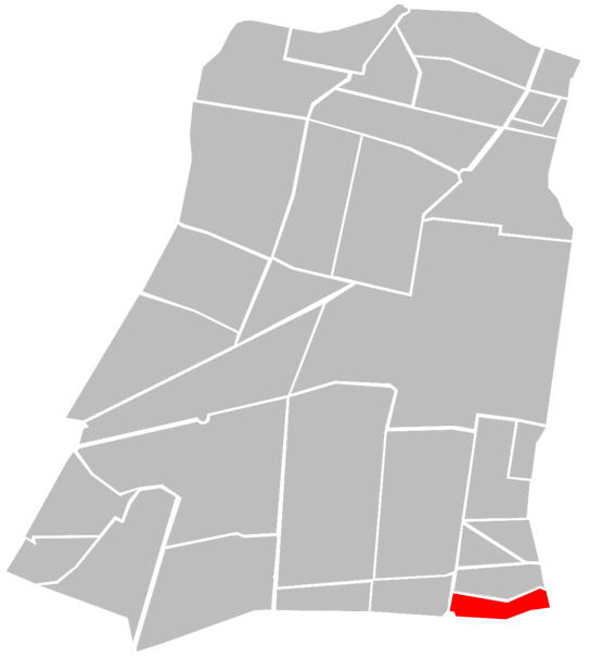 Map of Delegación Cuauhtémoc in Mexico City, with Colonia Algarín highlighted in red